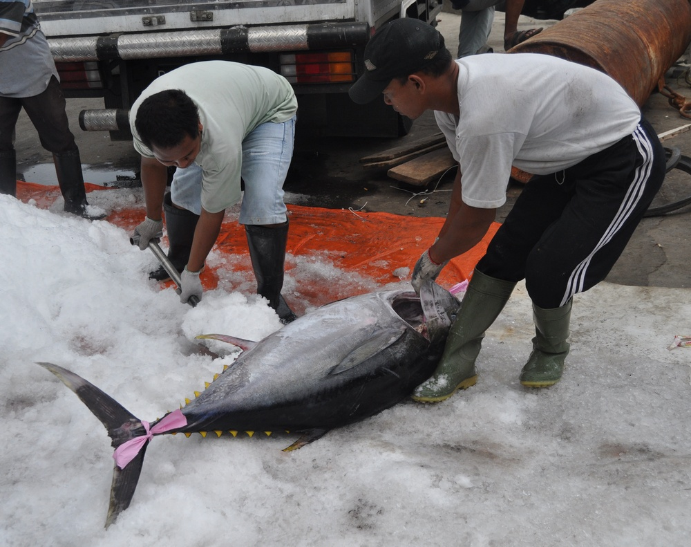 Yellowfin tuna Thunnus albacares, prepared with ice for transportation. Palabuhanratu, West Java.